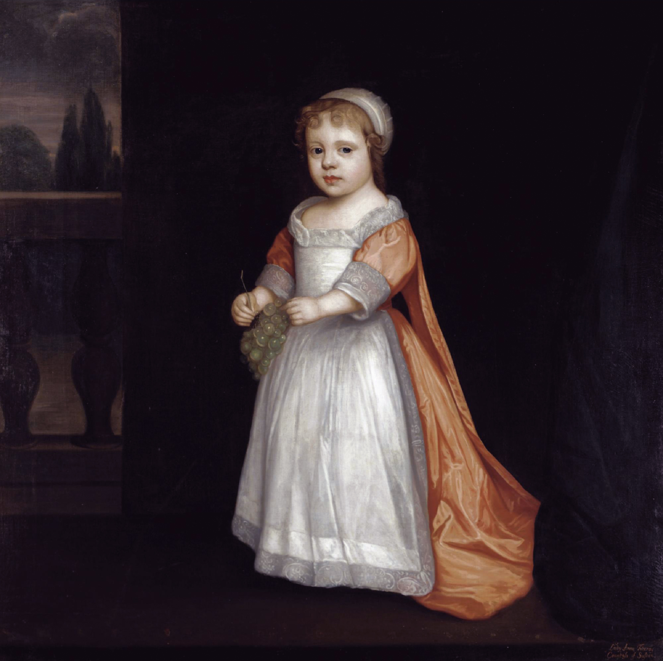 Anne Fitzroy, Countess of Sussex (1661-1722)